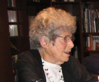 Raina Fehl in Rome December 2008